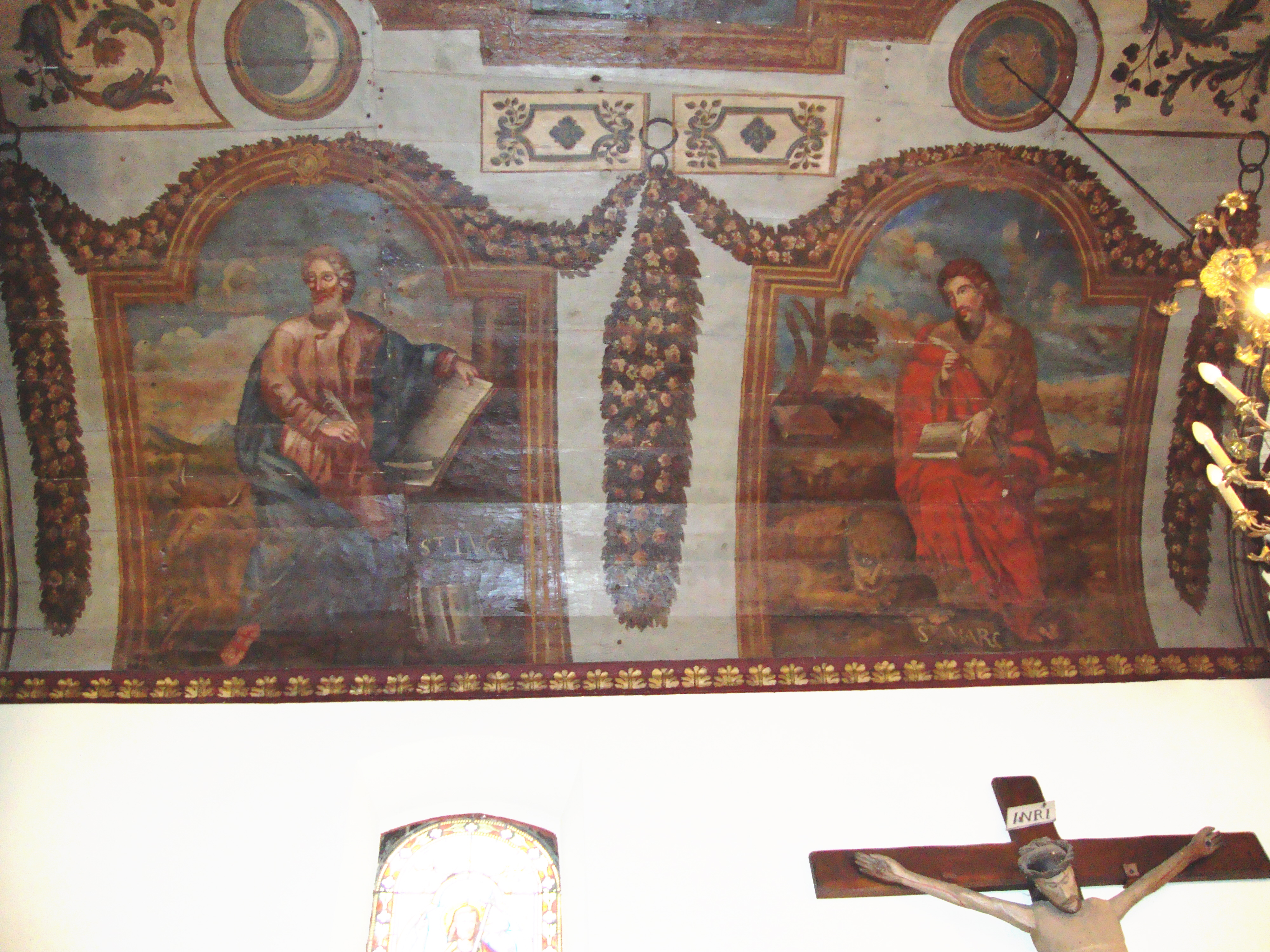 Jatxou (Pyr-Atl. Fr) Church St.-Sébastien Wall painting St.Luc, St.Marc.jpg